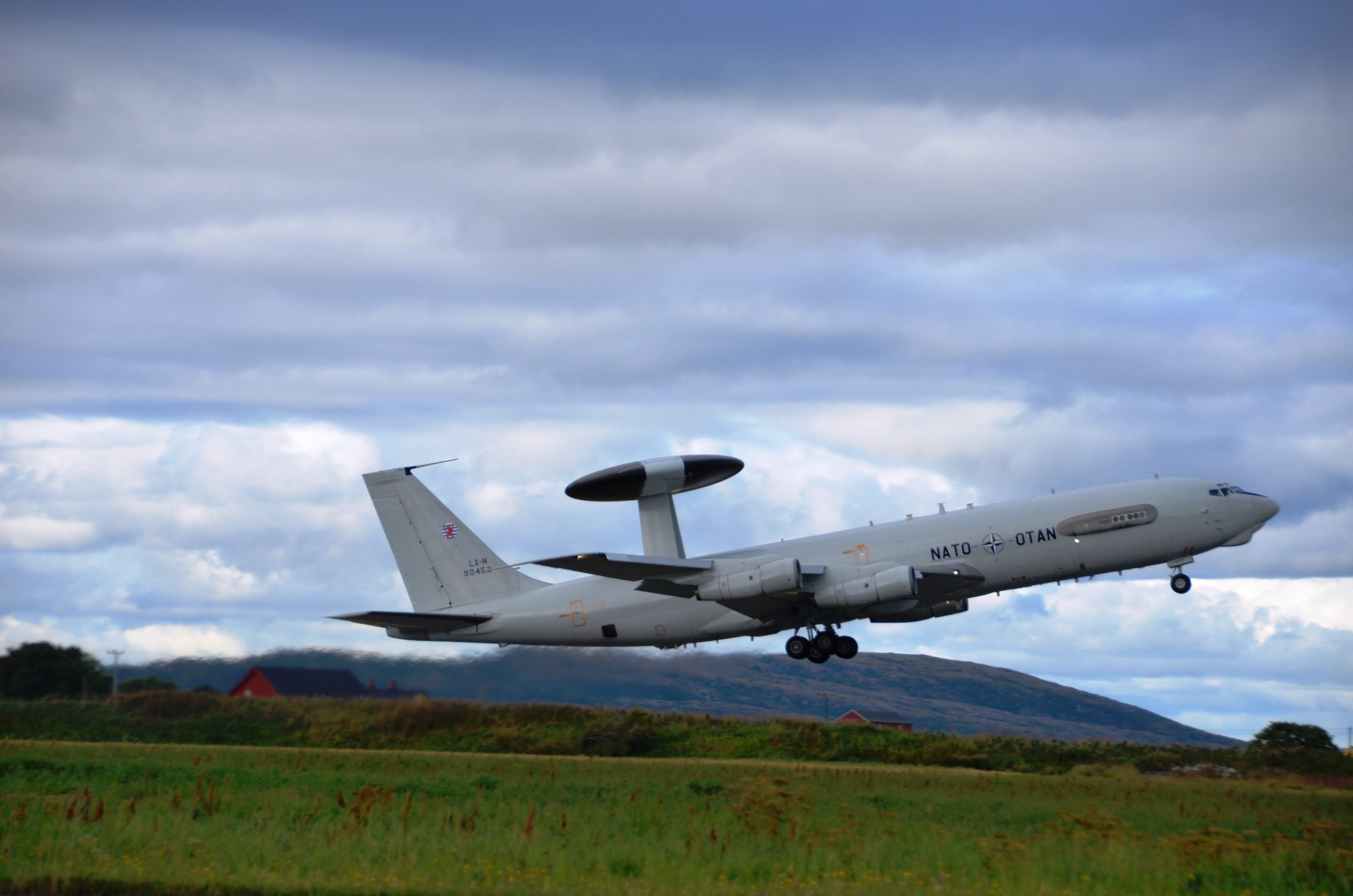 An E-3A takes-off from FOL Ørland to conduct a mission.